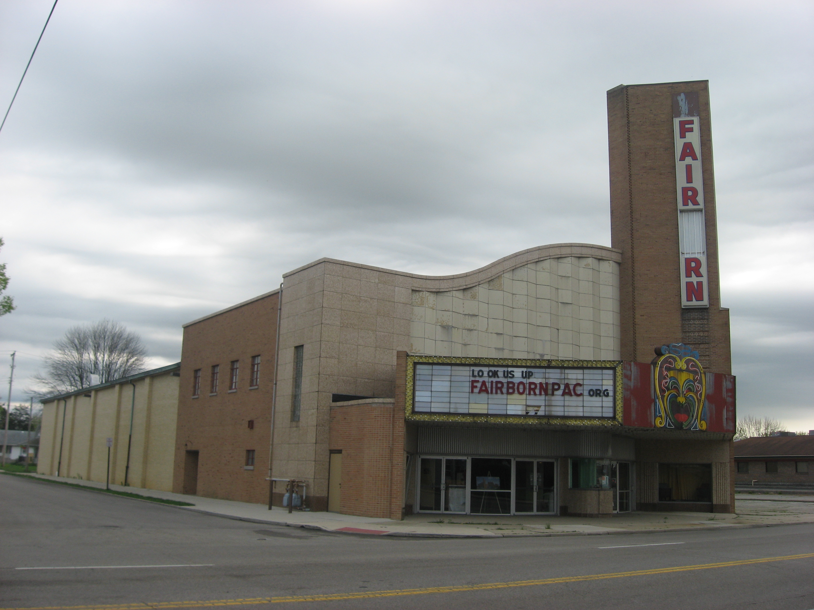 Front and northern side of the Fairborn Theatre, located at 34 S. Broad Street (State Route 444) in Fairborn, Ohio, United States. Built in 1948, it is listed on the National Register of Historic Places.